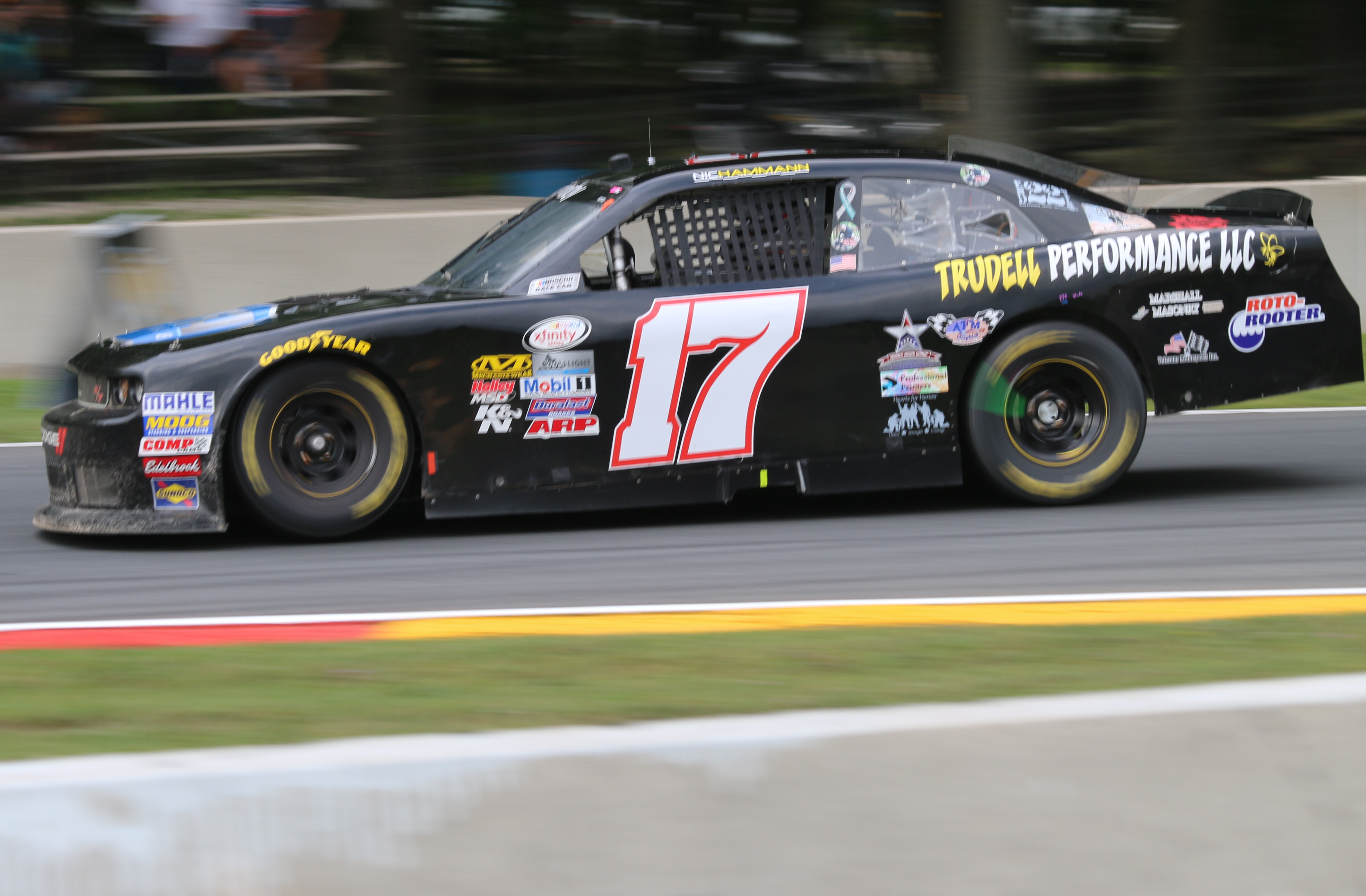 The Dodge Charger of Nicolas Hammann at the NASCAR Xfinity Series Johnsonville 180.